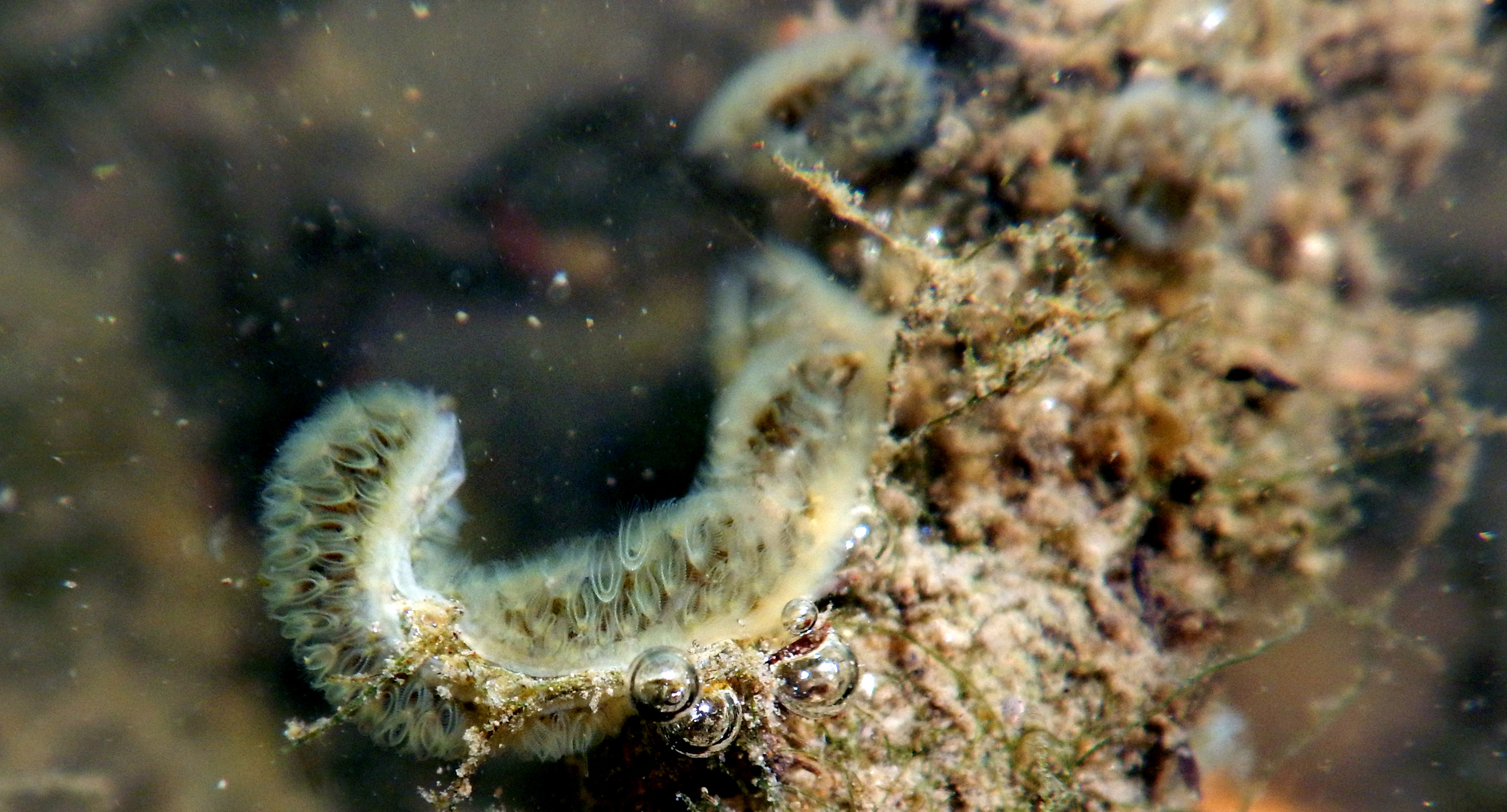 Bryozoan (cristatella mucedo) found living in colonies in the "Mid-Deûle" in the north of France - this fragile species seems to have appeared (or reappeared there) after import of clea water in the canal (over 2 million m3 / year)- . These animals lives in this case in a eutrophic water with sediments are polluted (formerly in constant contact with Upper-Deûle River, coming from the mining area (which were amongst the Métaleurop North Plant), on branches, wood piles, poles or walls ot the canal [but not or very rarely, and in this case may be accidentally) on the sediment] of this ancient channel (that is no longer open to traffic, replaced by a full-size section last more northwest).